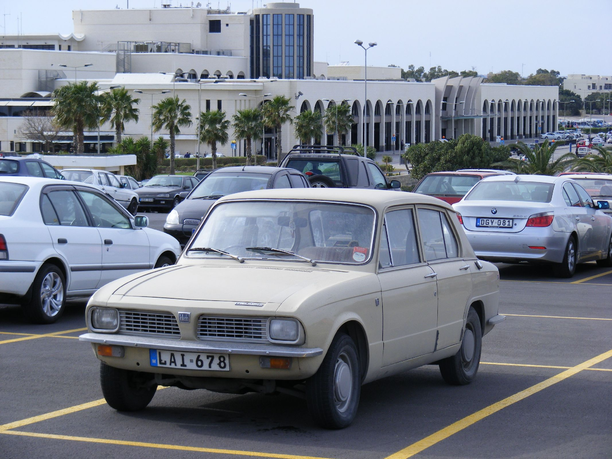 Triumph Toledo, Malta March 2010